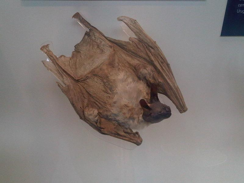 Taxidermied Spectral Bat, False Vampire Bat, Linnaeus's False Vampire Bat or Spectral Vampire Bat (Vampyrum spectrum) at the Natural History Museum in London, England.